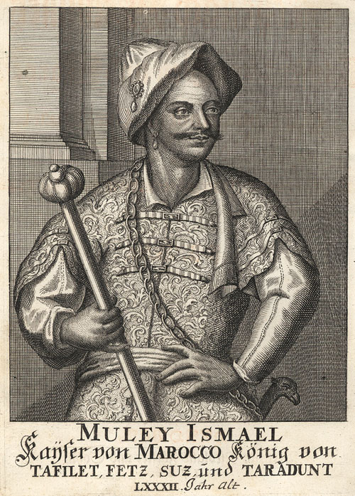 Moulay (or Mawlaay) Ismail, the second alouite sultan of Morocco, 1645-1727